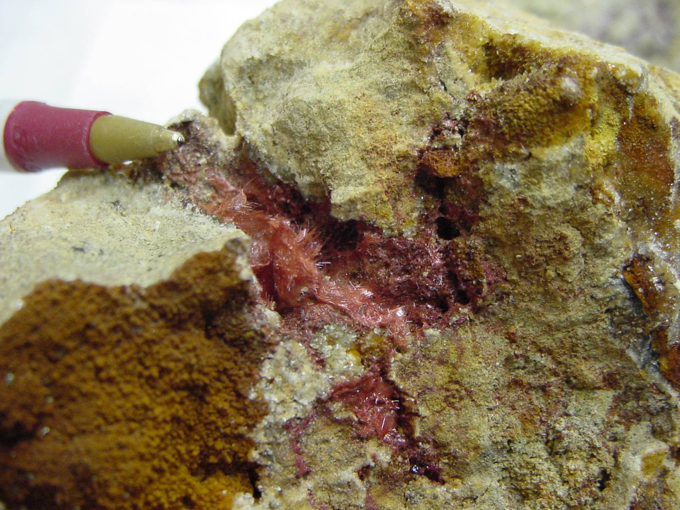 Cuprite, variety Chalcotrichite (red, spicular to capillary, pen for scale) - Mineral collection of Brigham Young University Department of Geology, Provo, Utah - BYU index 4-8076a, Cu2O